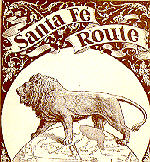 A trademark used by the Atchison, Topeka and Santa Fe Railway and some of its subsidiaries in the late 1800s.